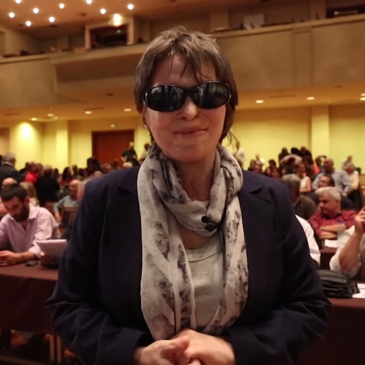 Bulgarian-Greek politician Konstantina Kouneva in 2015.